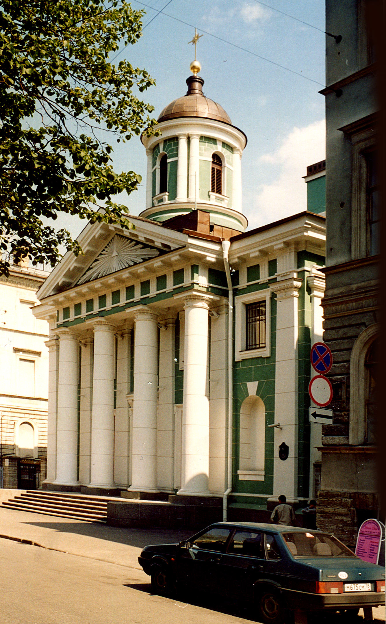 St Mary's Luteran Church in St. Petersbourg